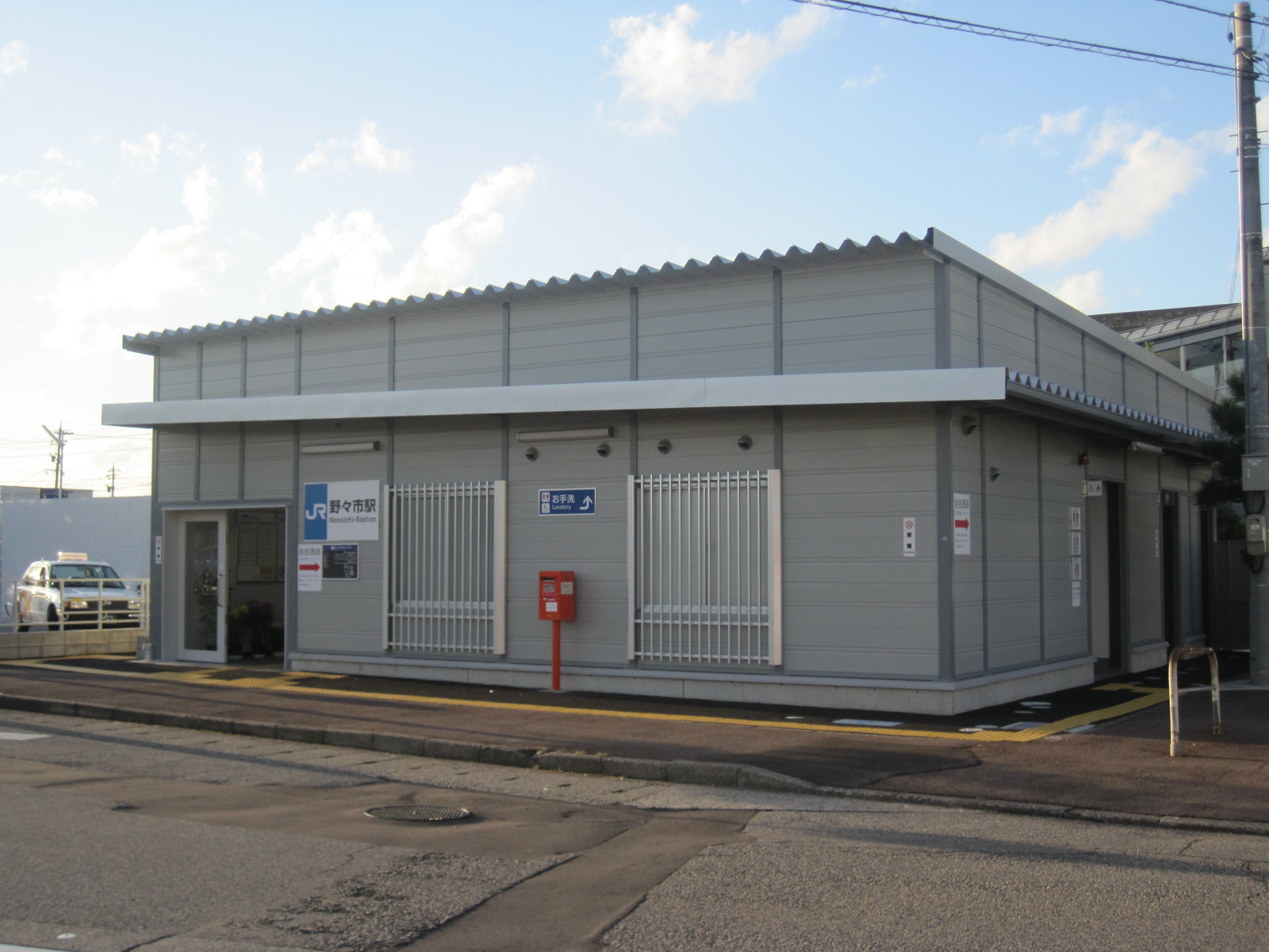 Nonoichi Station (temporary station)